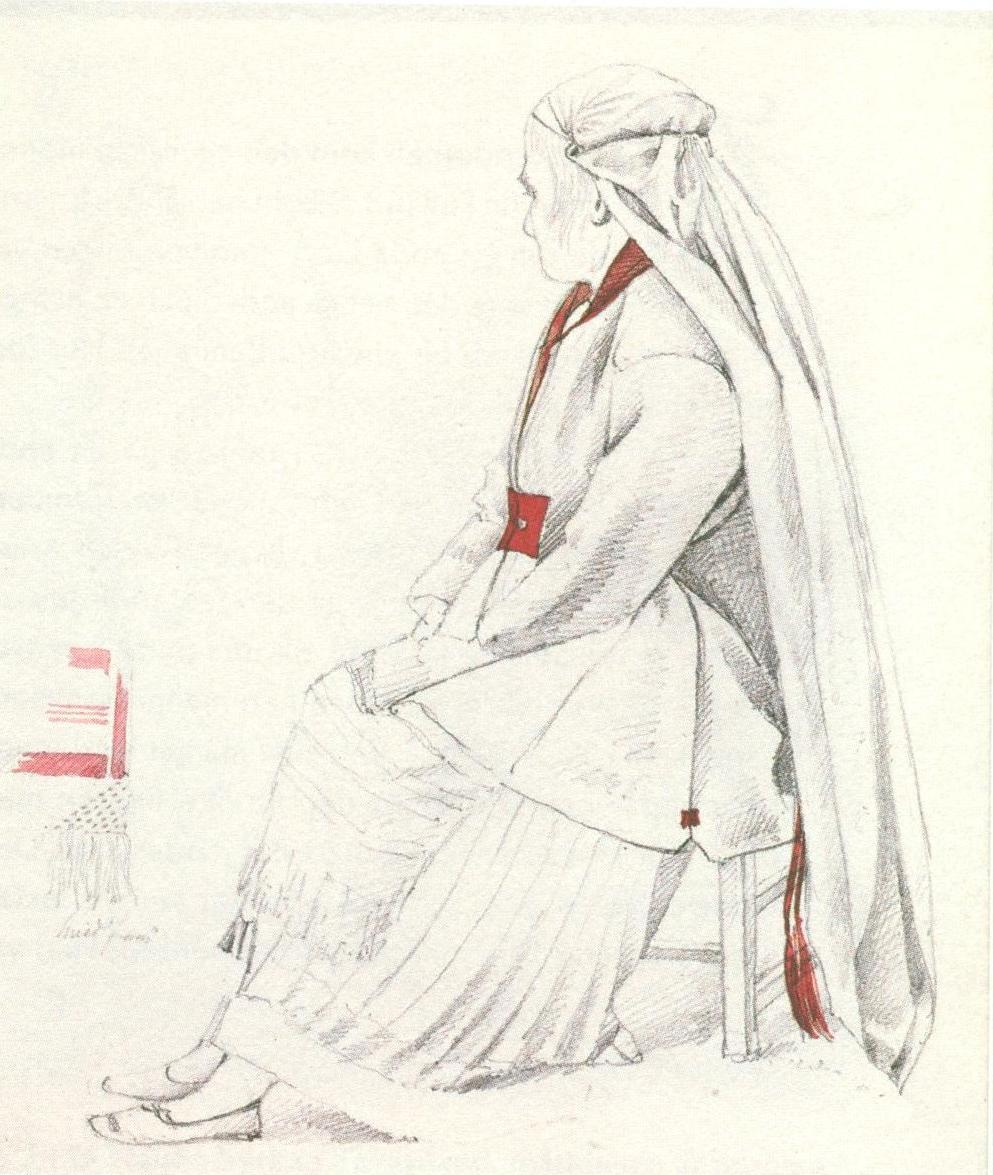 Woman from Ruokolahti in southern Karelia, with typical Karelian and eastern dress details, especially the long down-hanging vail.